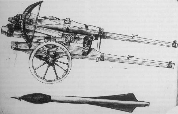 Arcuballista on wheels with a steel bow and incendiary bolt.